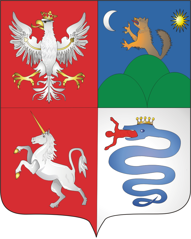 Coat of arms of Szapolyai János Zsigmond (18 July 1540 in Buda, Hungary – 14 March 1571, Gyulafehérvár, Transylvania). COA of Szapolyai János Zsigmond / COA Jana II Zygmunta Zapolyia (includes the Visconti coat of arms of a serpent devouring a child).